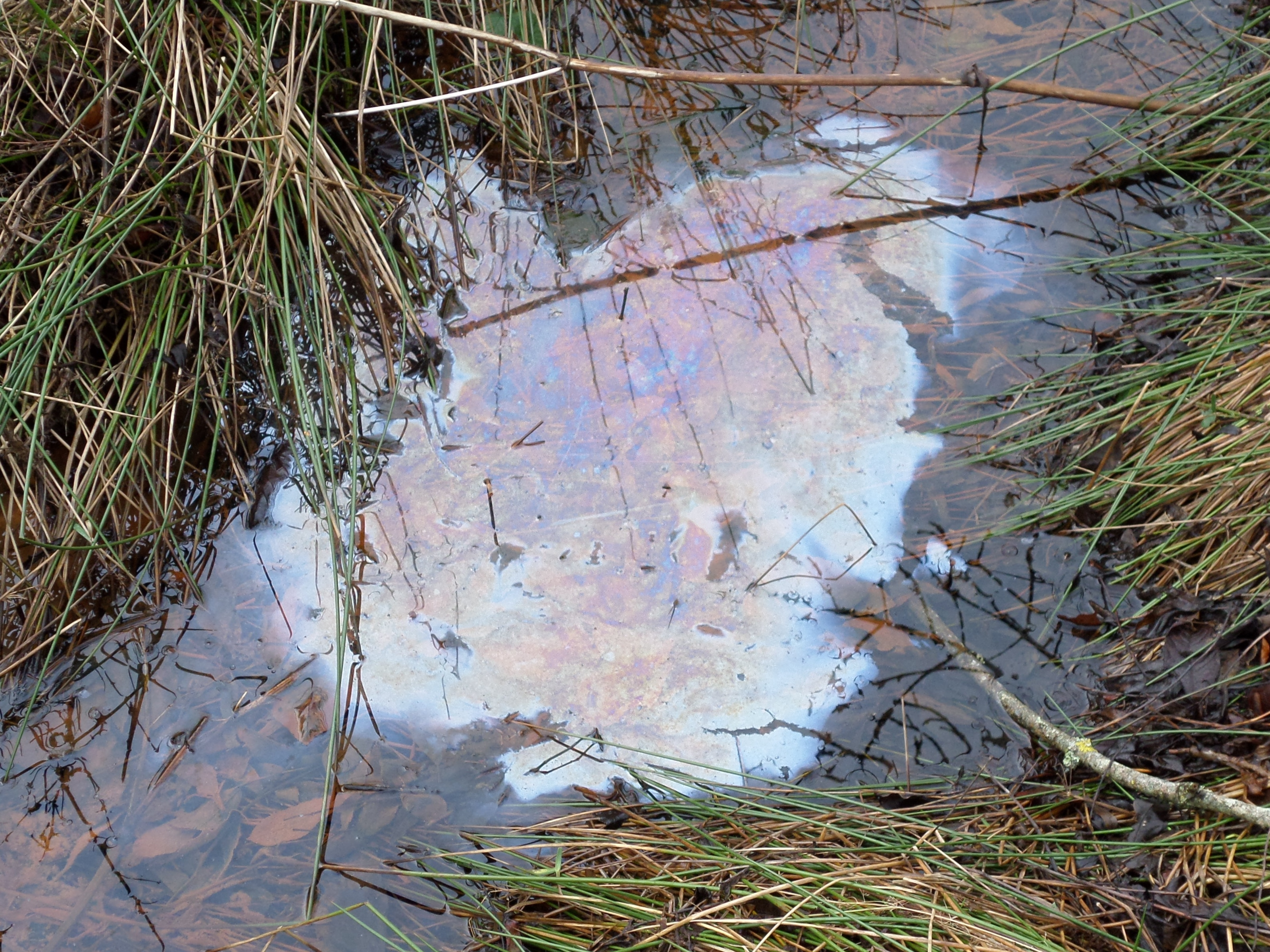 A species of Iron Bacteria - Leptothrix discophora - on a pond at Kirtonhall Glen in West Kilbride, North Ayrshire, Scotland.